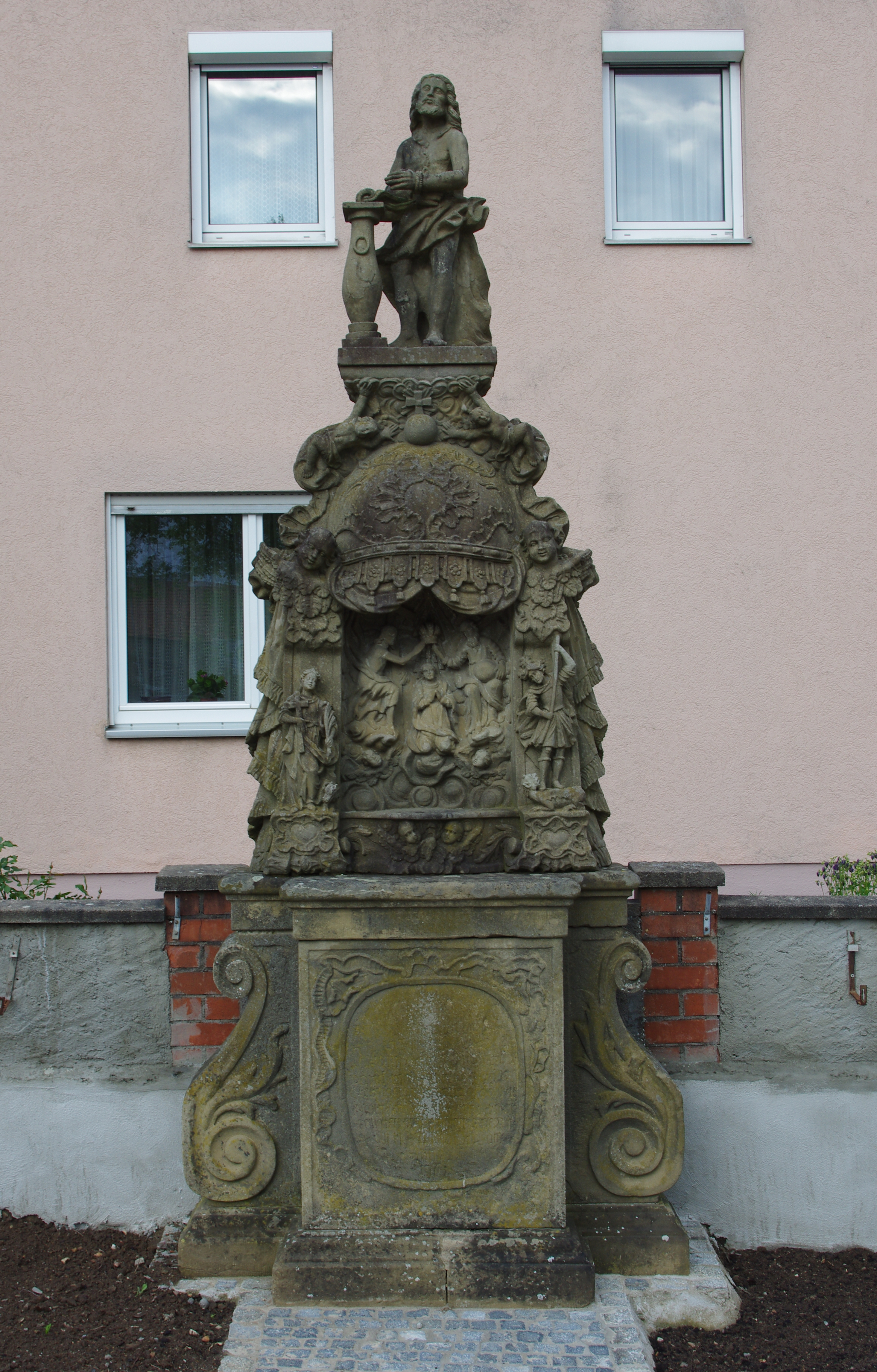 Google Maps - Google Earth